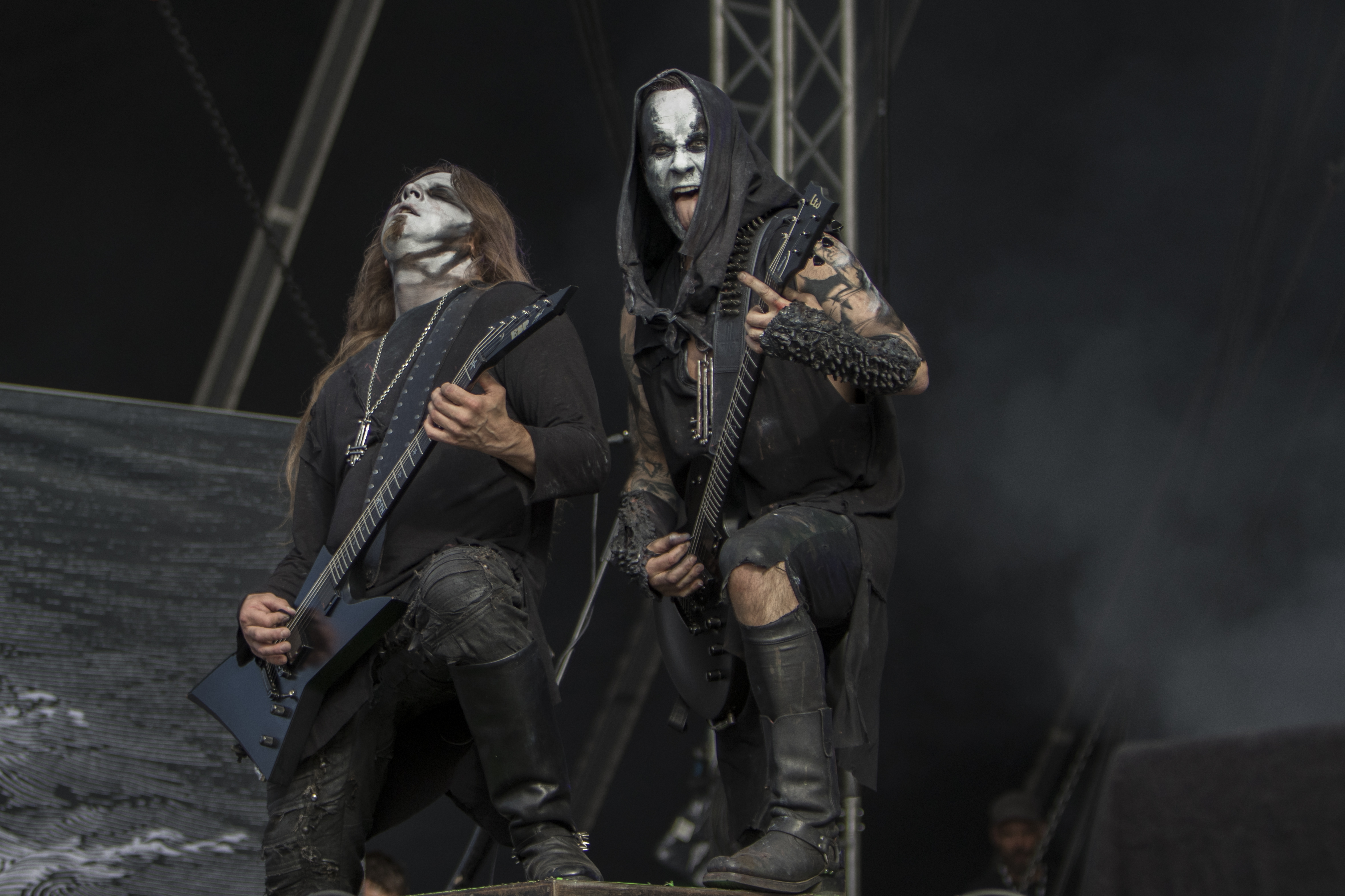 Behemoth at Tuska Open Air Metal Festival 2019 in Helsinki, Finland (Kalasatama)